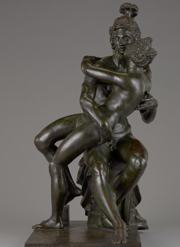 Mars and Venus; Attributed to Hans Mont (Flemish, born about 1545 - after 1585); Flanders (?), Belgium; 1580; Bronze; 53.9 x 37.2 x 25.9 cm, 28.5766 kg (21 1/4 x 14 5/8 x 10 3/16 in., 63 lb.); 85.SB.75